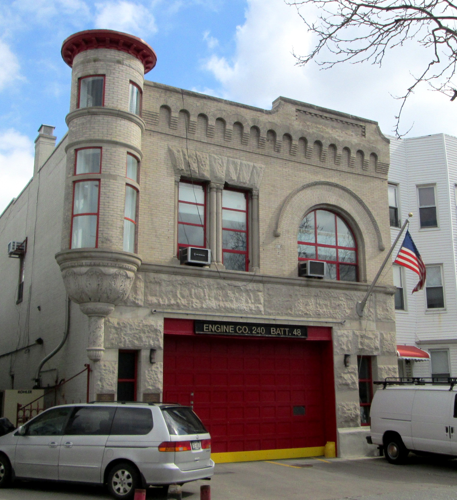 Engine Company 240 Battalion 48 of the New York Fire Department, located at 1309 Prospect Avenue between Greenwood Avenue and Ocean Parkway in the Windsor Terrace neighborhood of Brooklyn, New York City, was built in 1896 in the Romanesque Revival style. (Source: AIA Guide to NYC (5th ed.))